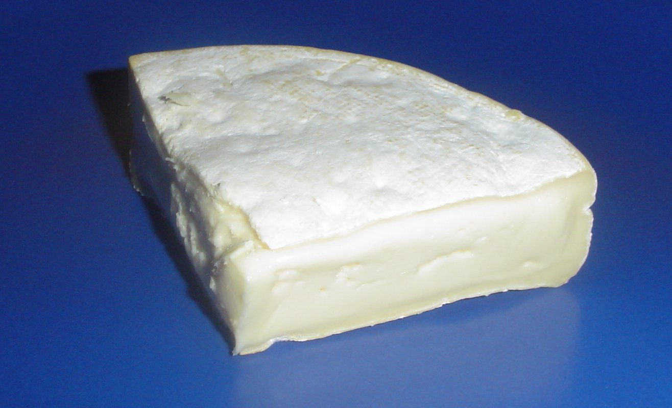 Reblochon cheese, France.